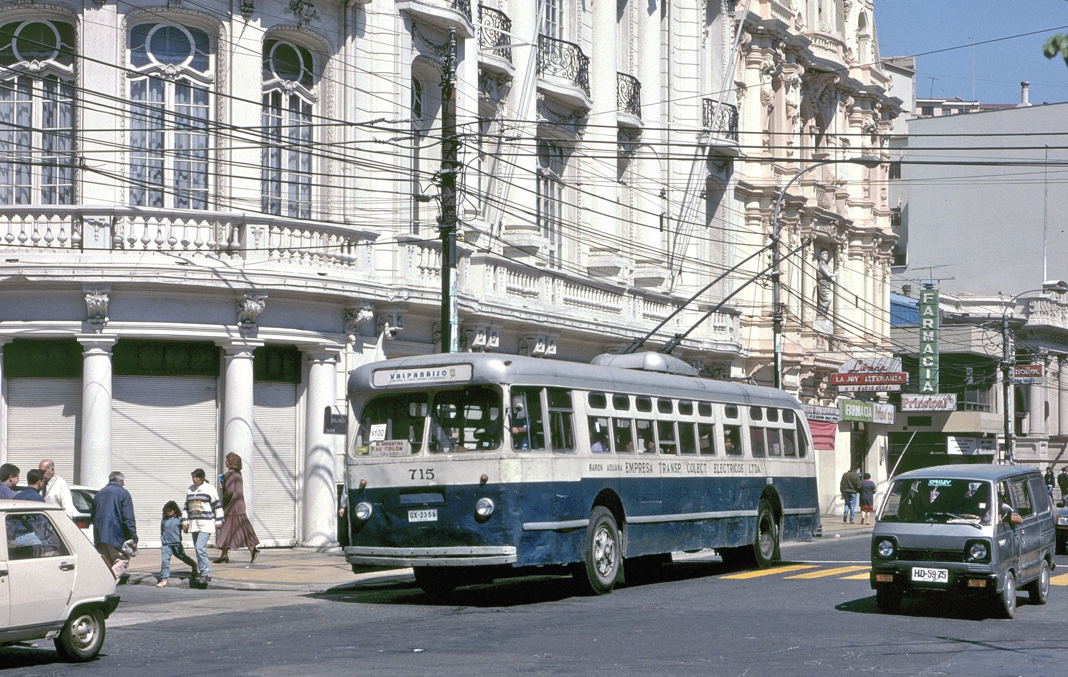 1952-built Pullman-Standard trolleybus No. 715 in Valparaíso, Chile, in 1996. It is traveling east on Calle Condell at the south end of Plaza Victoria. This vehicle and several other Pullman trolleybuses are still in regular use (for normal public transit service) in 2017. This is a photo of a national monument in Chile: 2010